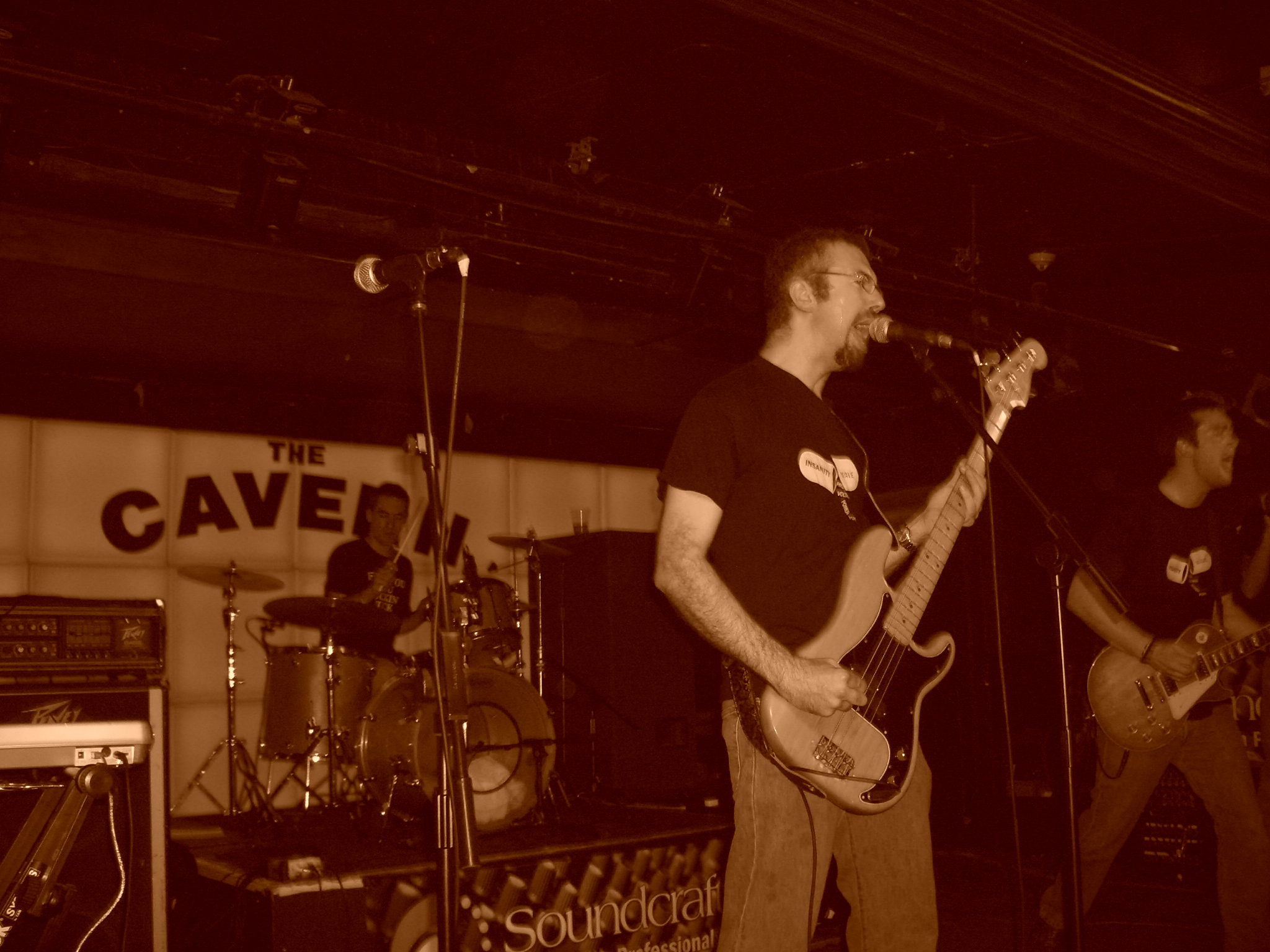 Insanity Wave live at the Cavern Club, Liverpool, Uk.